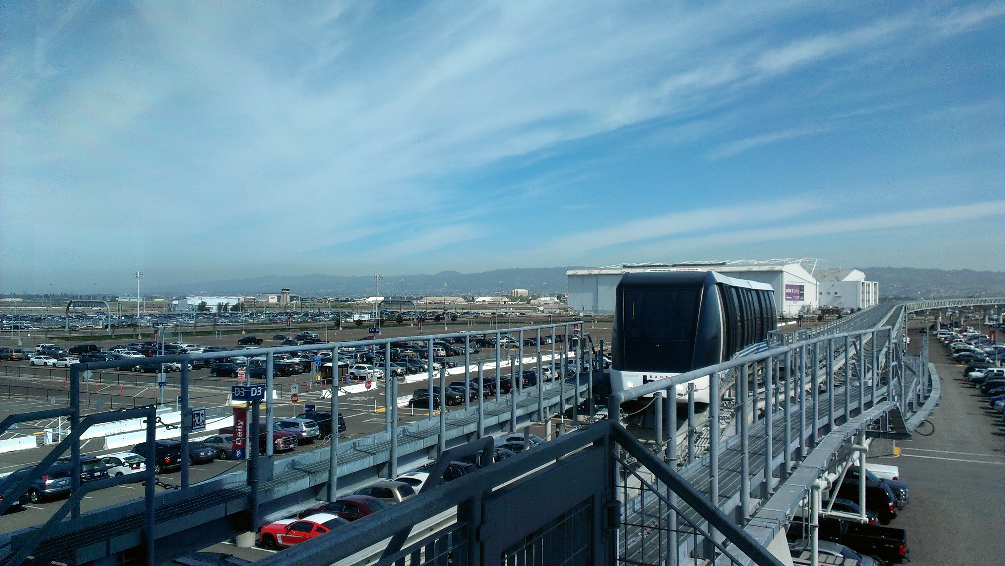 Viewed from platform